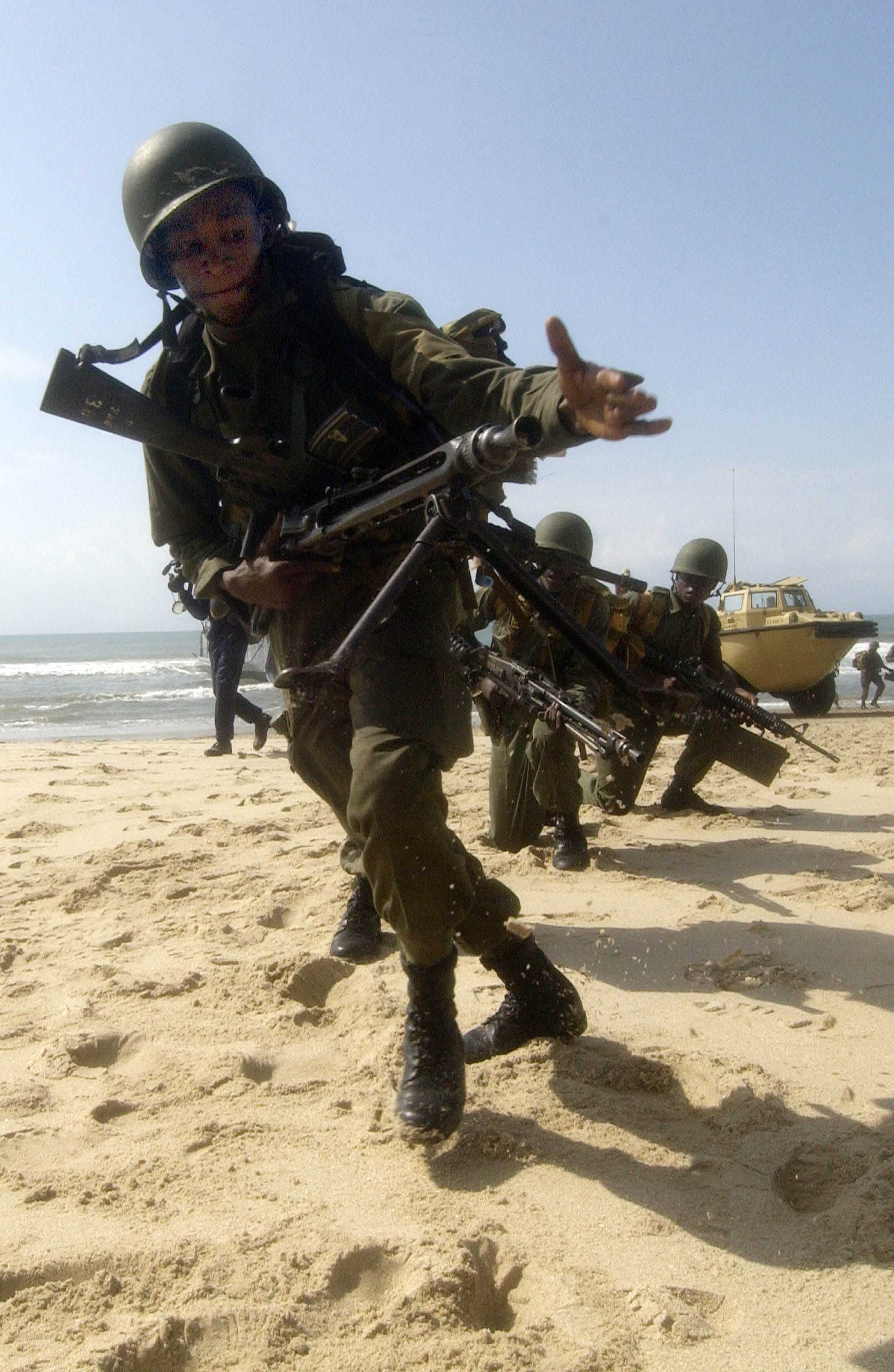 051017-F-5789F-095 Atlantic Ocean (Oct. 15, 2005) - A Ghanaian army Sgt. directs his men forward while engaged in amphibious operations in southwest Ghana during the West African Training Cruise '06 (WATC). The WATC enhances security cooperation and fosters new partnerships between the United States, North Atlantic Treaty Organization partners and the participating West African nations of Ghana, Senegal, Guinea and Morocco through real-world training and engagement opportunities. U.S. Air Force photo by Master Sgt. Steve Faulisi (RELEASED)